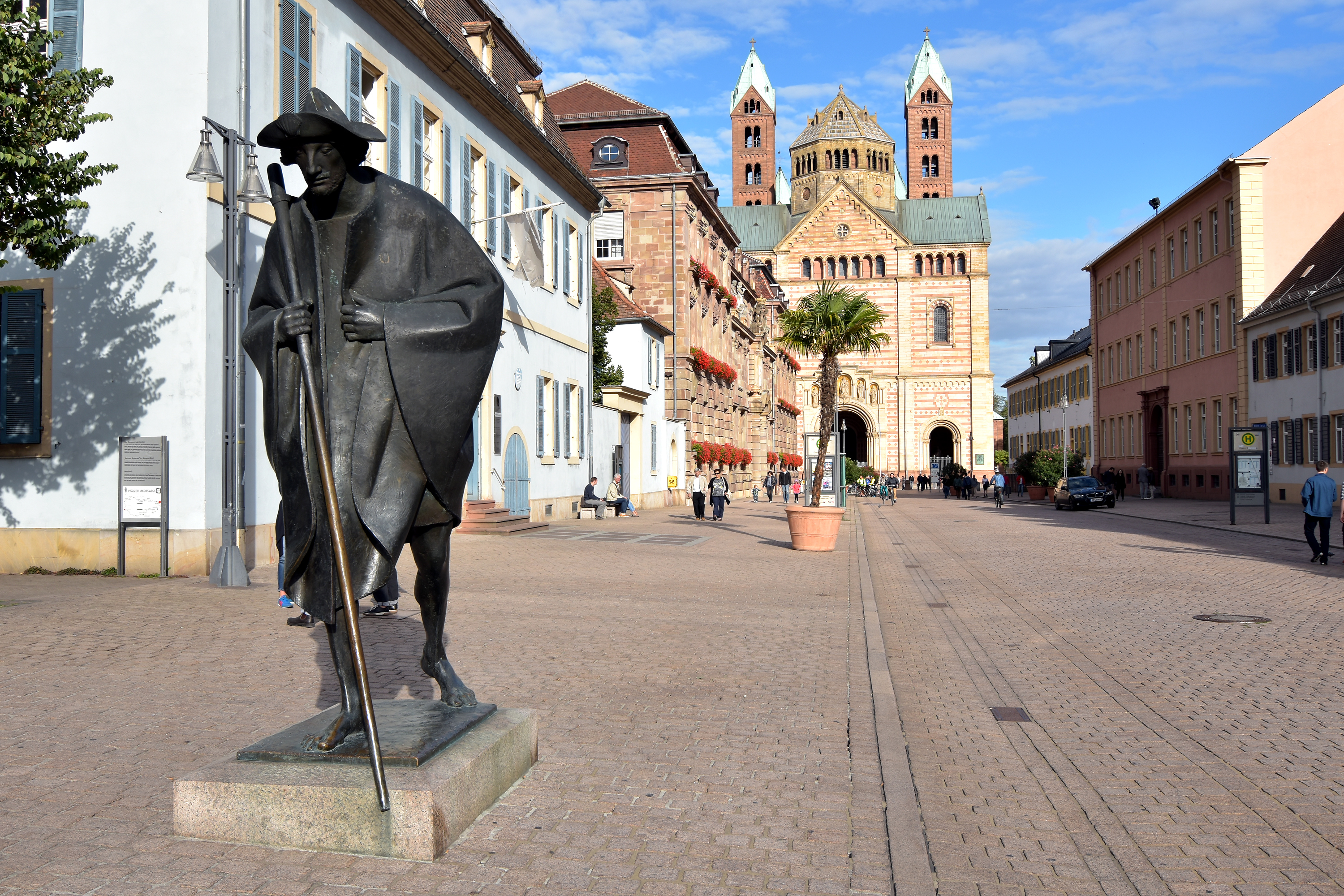 Speyer